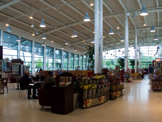 Norton Canes Services: a pleasing interior. Motorway services are like airports: they are designed to encourage travellers to be on their way as soon as possible; they don't want people to linger and relax. But Norton Canes is more attractive than most, the high, arching ceiling and glazed walls making it the lightest, cleanest looking services I've visited. Compare Watford Gap and Michael Wood!